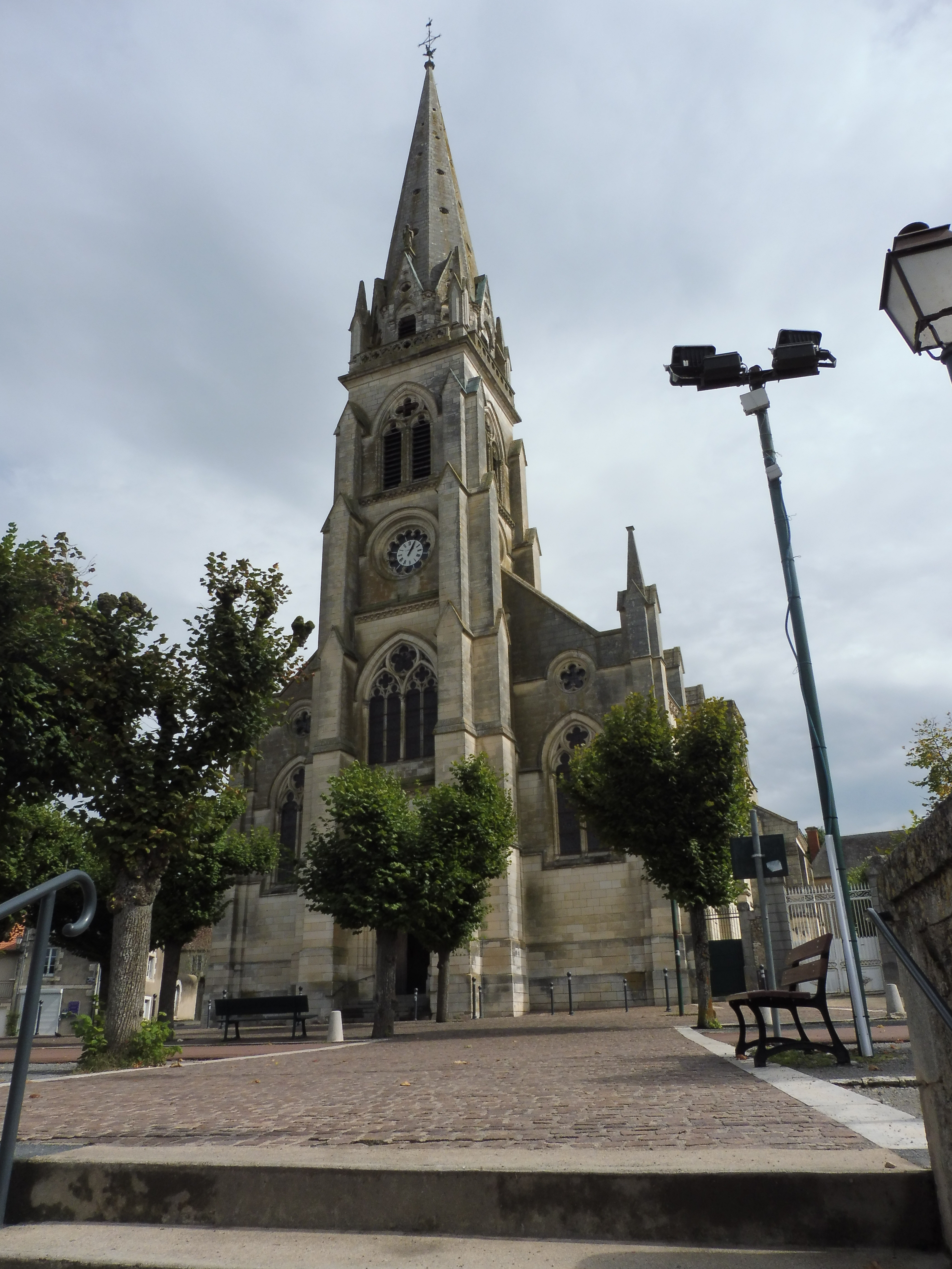 Saint-Martial of Montmorillon Church 1 .